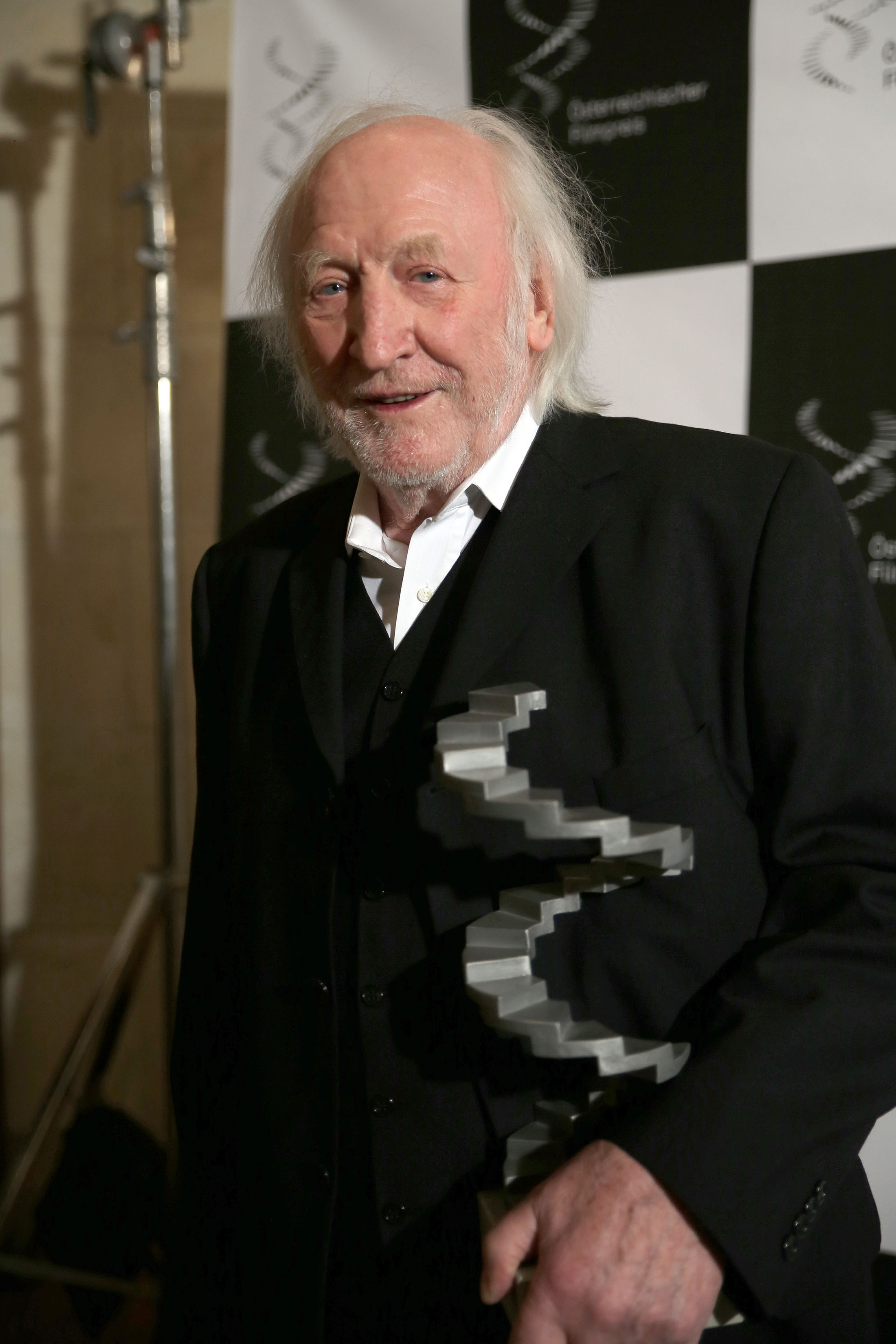 Karl Merkatz, Austrian Film Awards 2013 (Vienna).